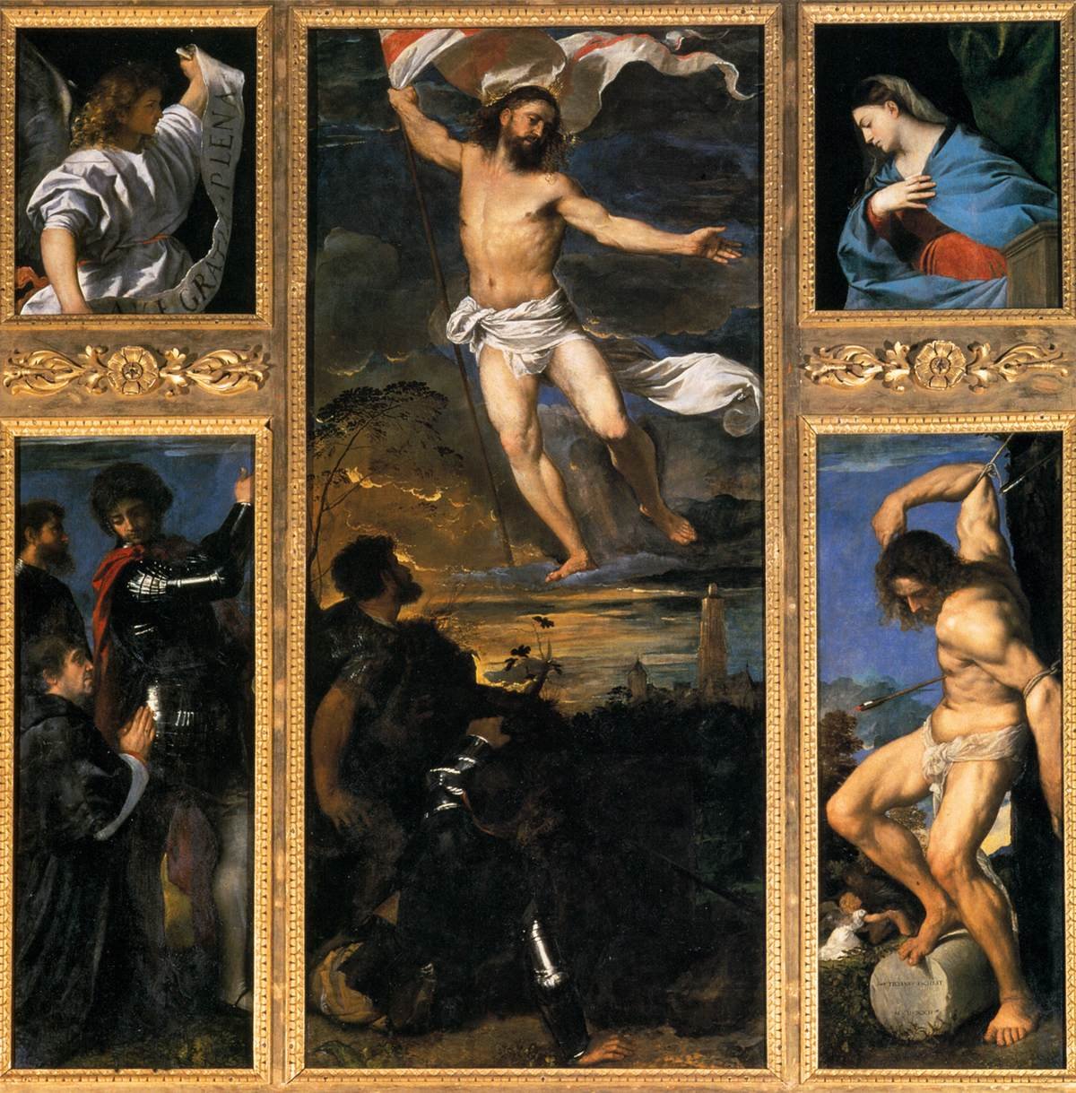 on the left panel bishop Altobello Averoldi, papal legate to Venice, the donor of the altarpiece is portrayed kneeling, in 1518/19